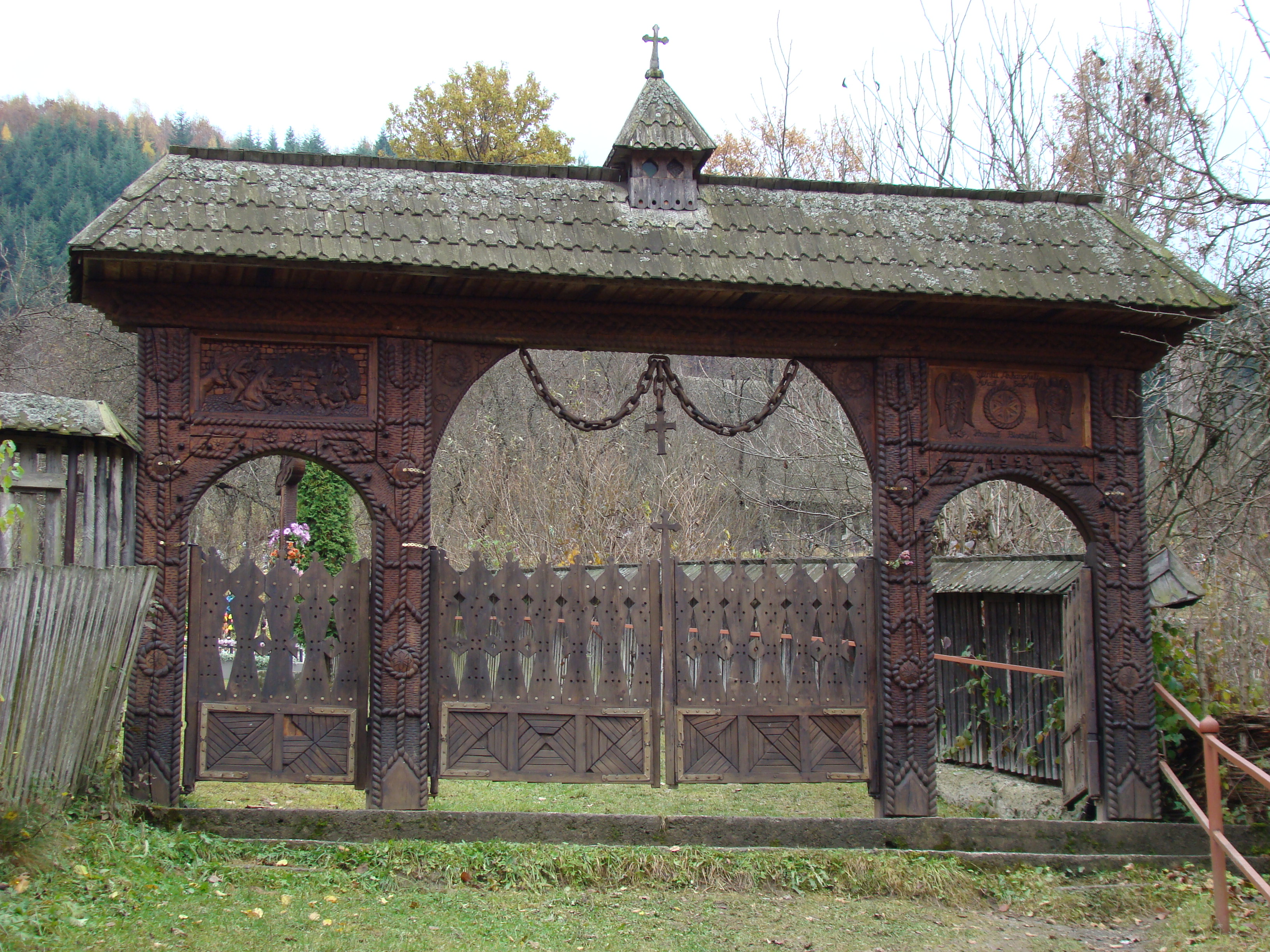 gate of the older wooden Orthodox church in Valea Stejarului, Maramureș county, RomaniaRomână: Biserica de lemn „Cuvioasa Paraschiva”, sat Valea Stejarului, județul Maramureș